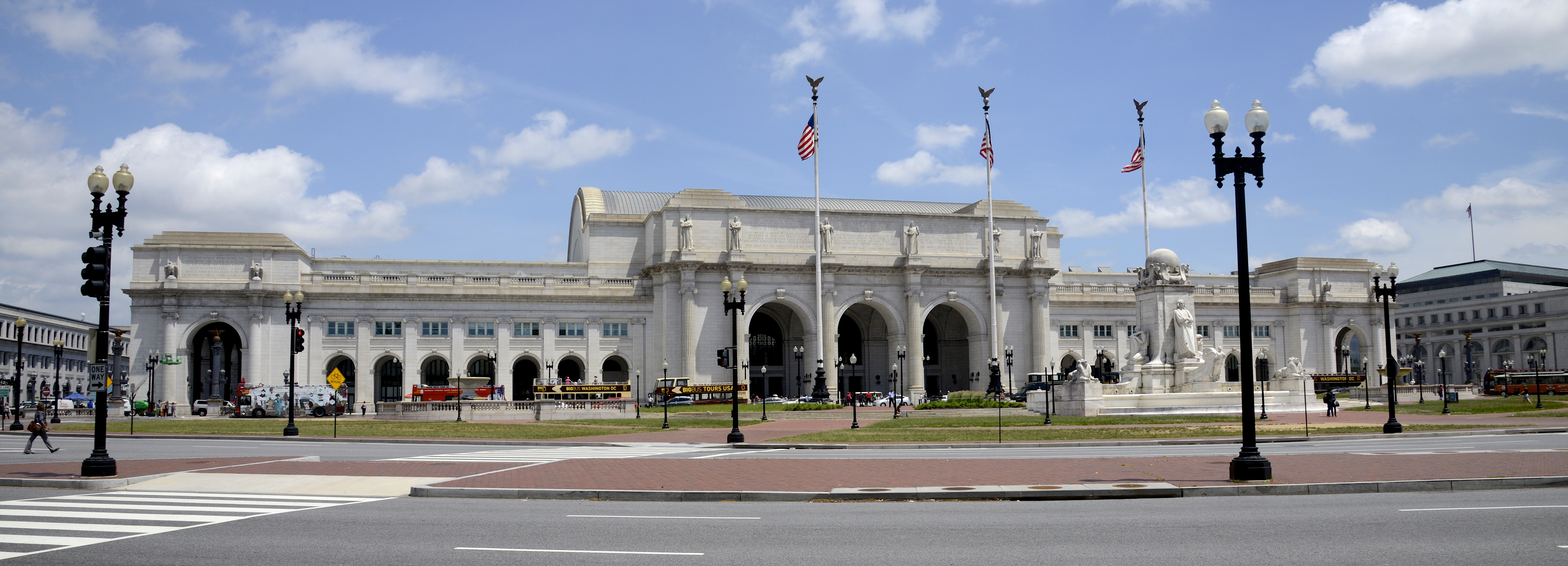 Union Station in Washington, D.C., taken from Columbus Circle at Louisiana Avenue on May 27, 2015.